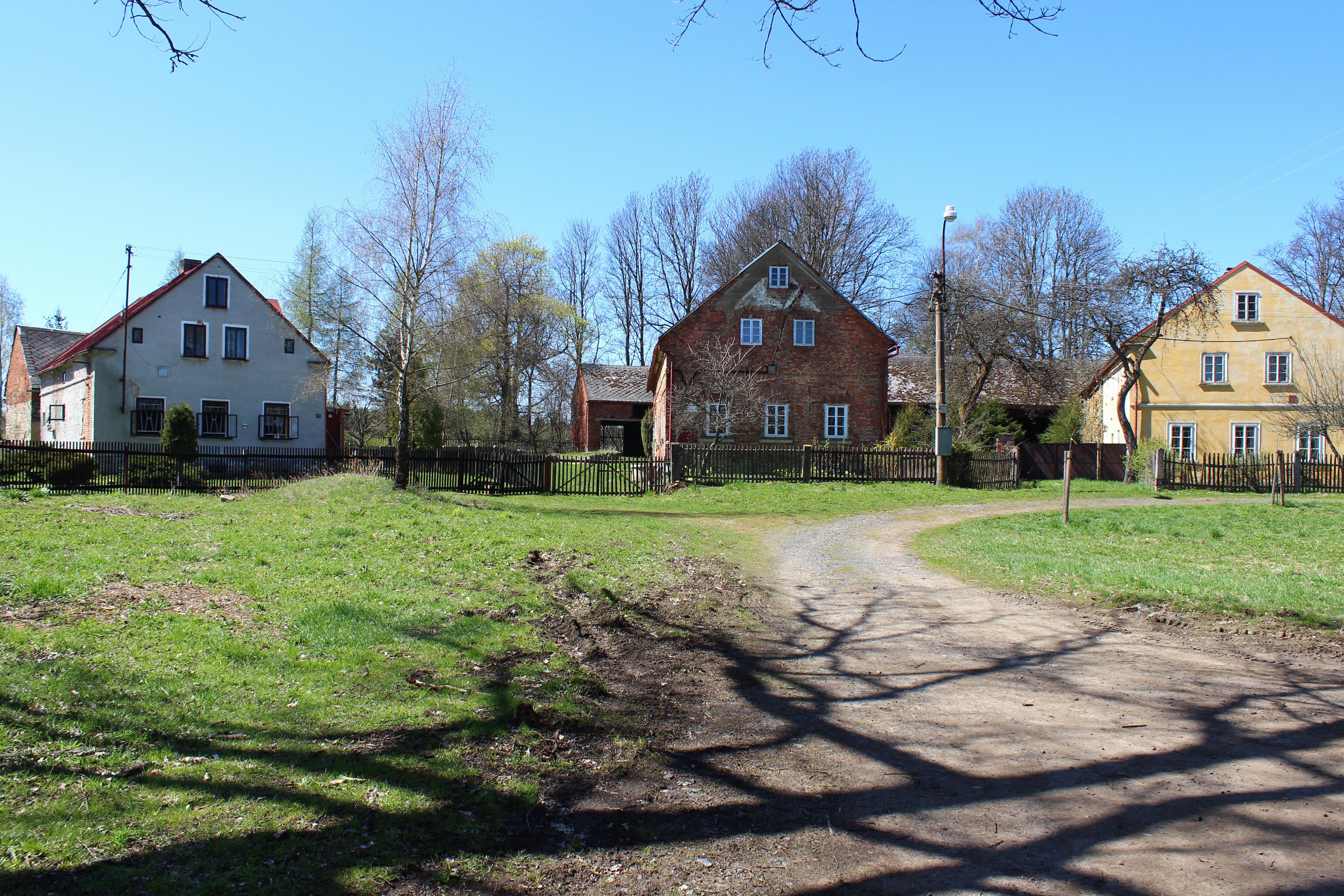 Common in Jankovice, part of Teplá, Czech Republic